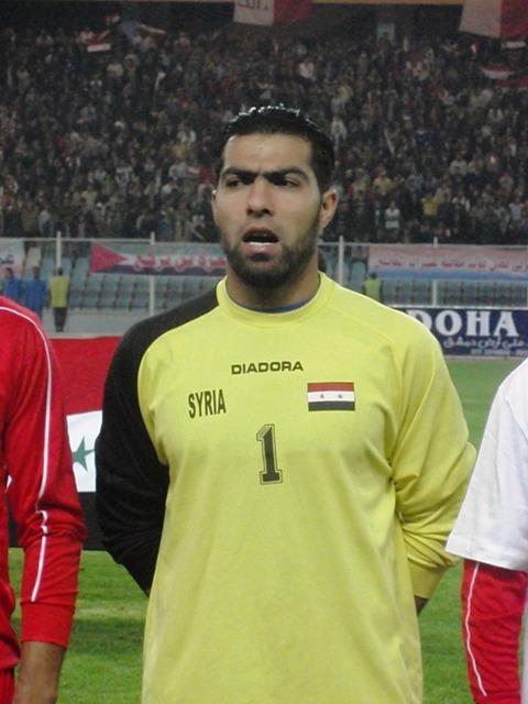 Mosab Balhous - Syrian football player